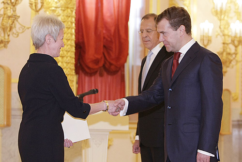 THE KREMLIN, MOSCOW. Presentation by foreign ambassadors of their letters of credence. Ambassador of the Republic of Serbia Jelica Kurjak presents her letter of credence to the President of Russia.